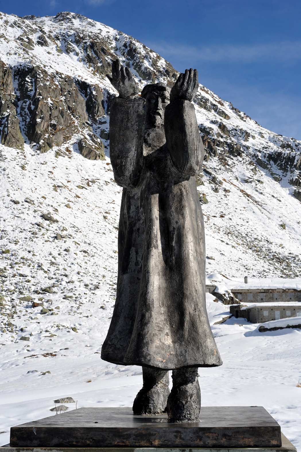 «Il viandante» (the wanderer), sculpture by Pedro Pedrazzini on the Gotthard pass; Ticino, Switzerland. The sculpture was erected in memory of the 200th anniversary of the accession of the canton Ticino to the Swiss Confederation and was inaugurated on 26 July 2003.